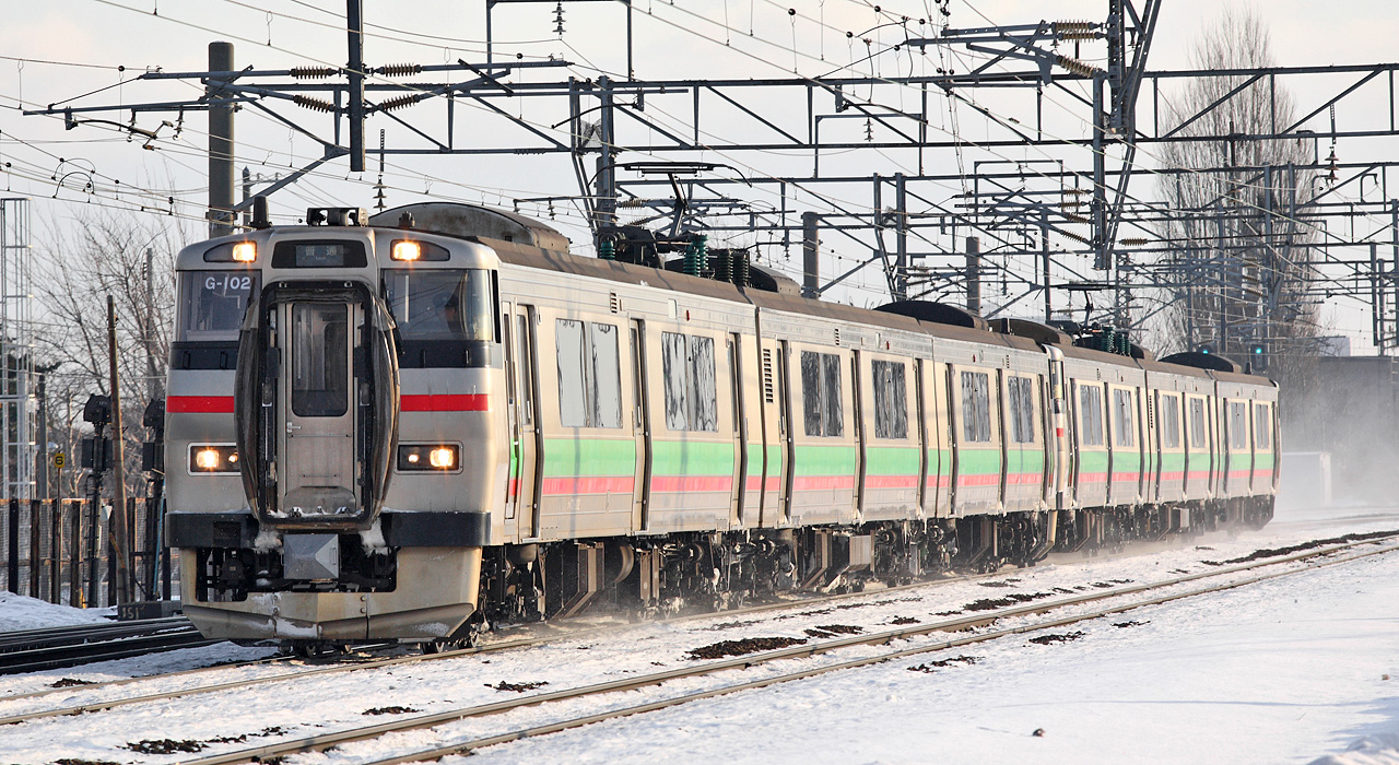 JR Hokkaido 731 series EMU (2737M/G-102+? F, Shiroishi Stn. - Naebo Stn.)